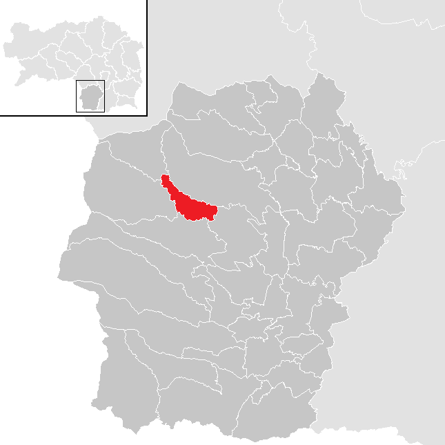 District Deutschlandsberg, Styria, Austria